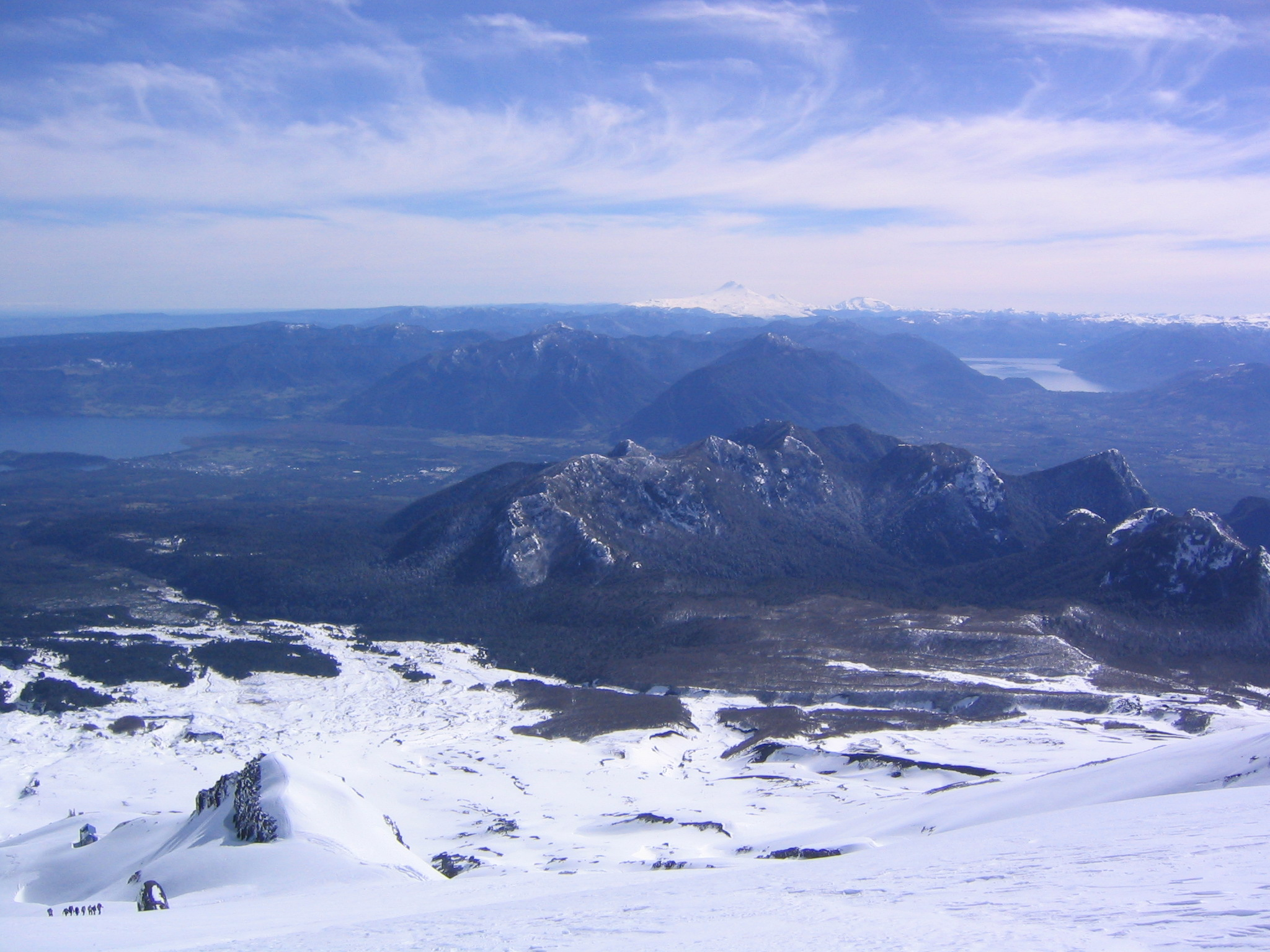 View of the Araucanía part of Chile's Lake District, looking down from Villarrica Volcano.Lake District